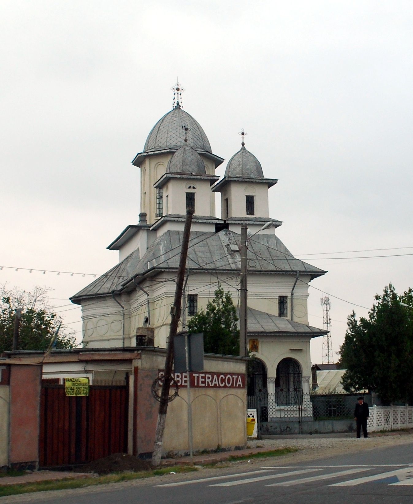 Romanian Orthodox church in Afumaţi, Ilfov County, Romania